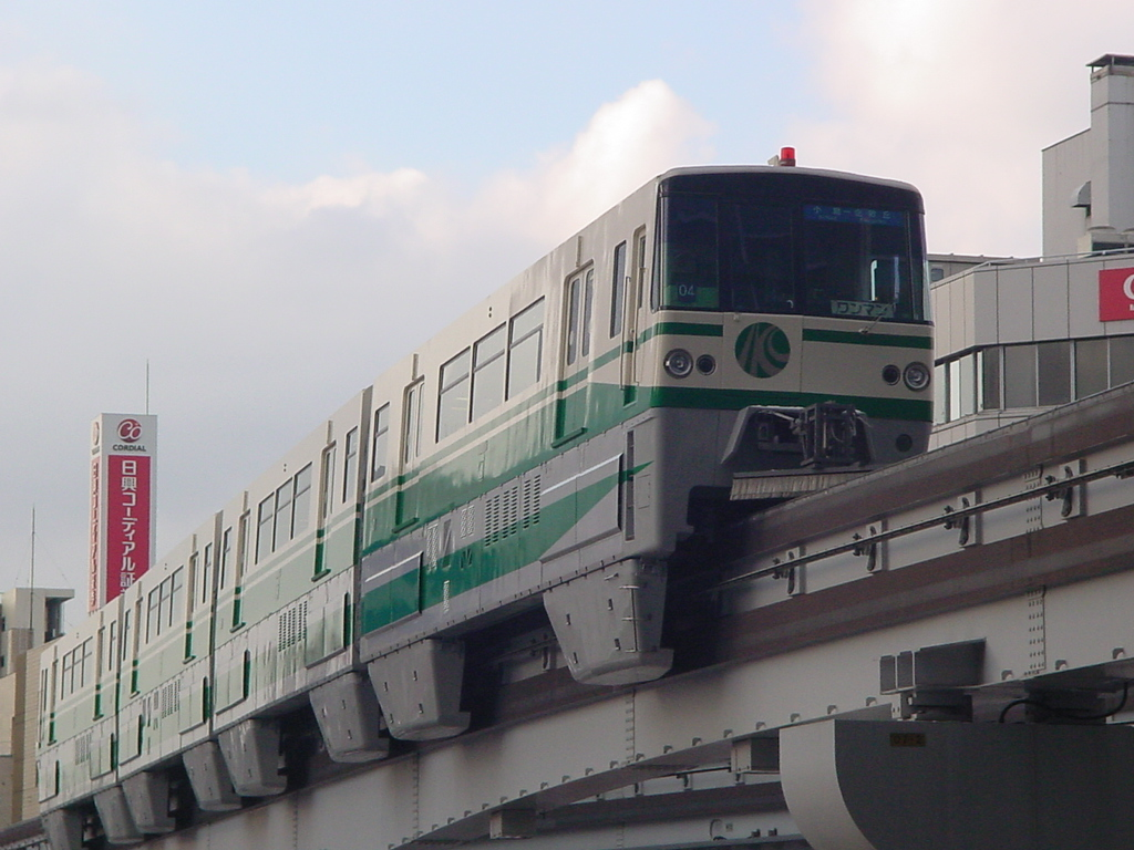 Train of Kitakyushu Urban Monorail